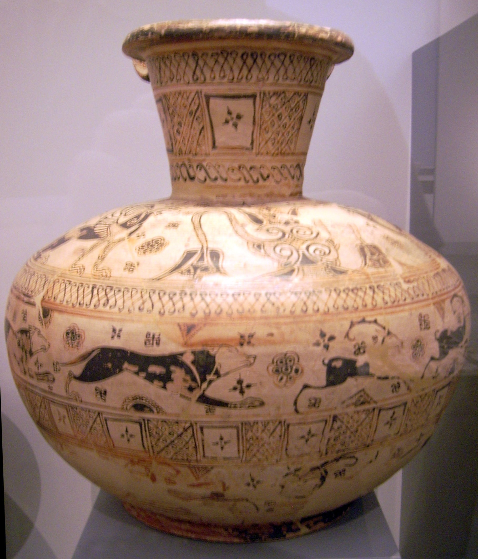 Wild Goat style (Middle I). The shoulder carries a composition of two griffins posing across a lotus ornament and flanked by a bull and a goat. Around the belly there are two friezes with groups of dogs coursing goats and deer.